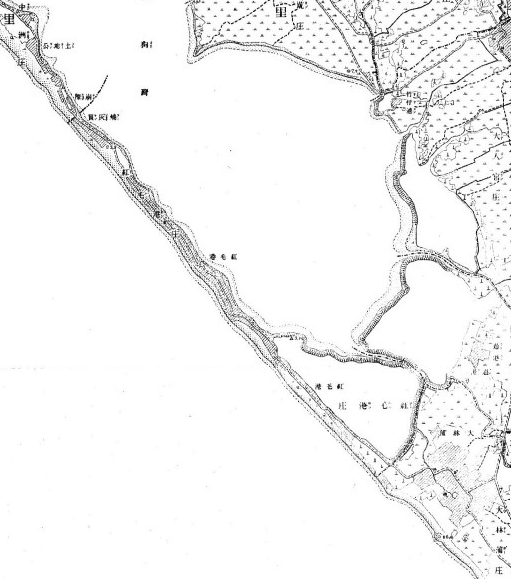 Hongmaogang